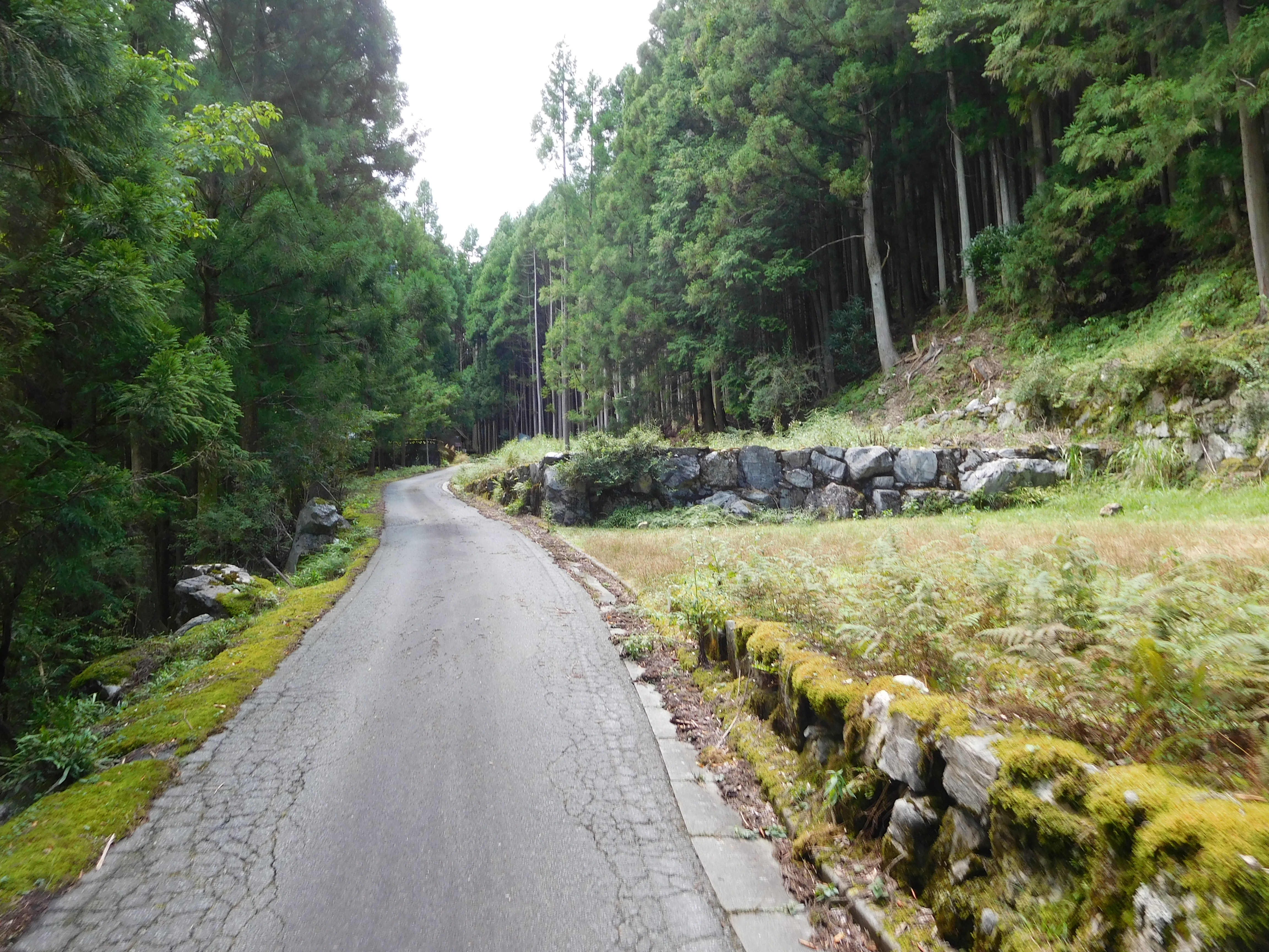 This is a landscape of Iitakacho-Hachisu, Matsusaka city, Mie prefecture, Japan.